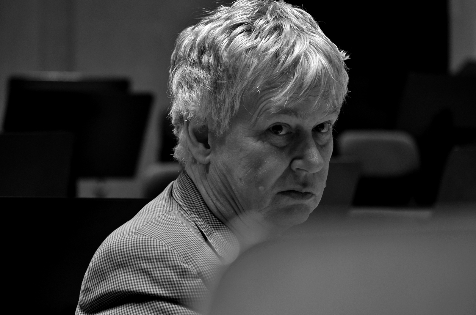 Zoltán Kocsis (Hungarian: [ˈzoltaːn ˈkot͡ʃiʃ]; 30 May 1952 – 6 November 2016) was a Hungarian virtuoso pianist, conductor, and composer.